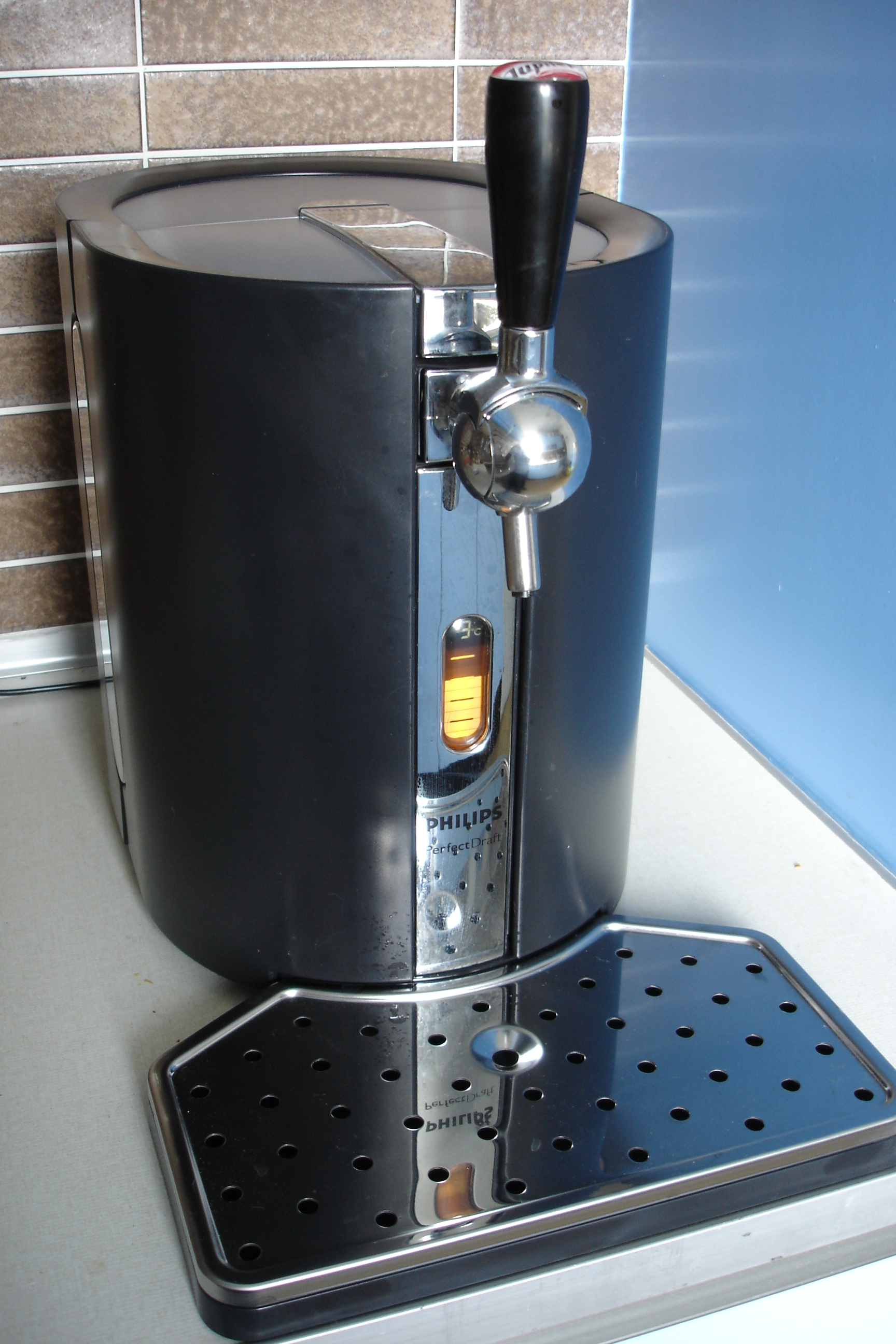 Photo of a Philips Perfectdraft. Own photo taken 29 March 2006.